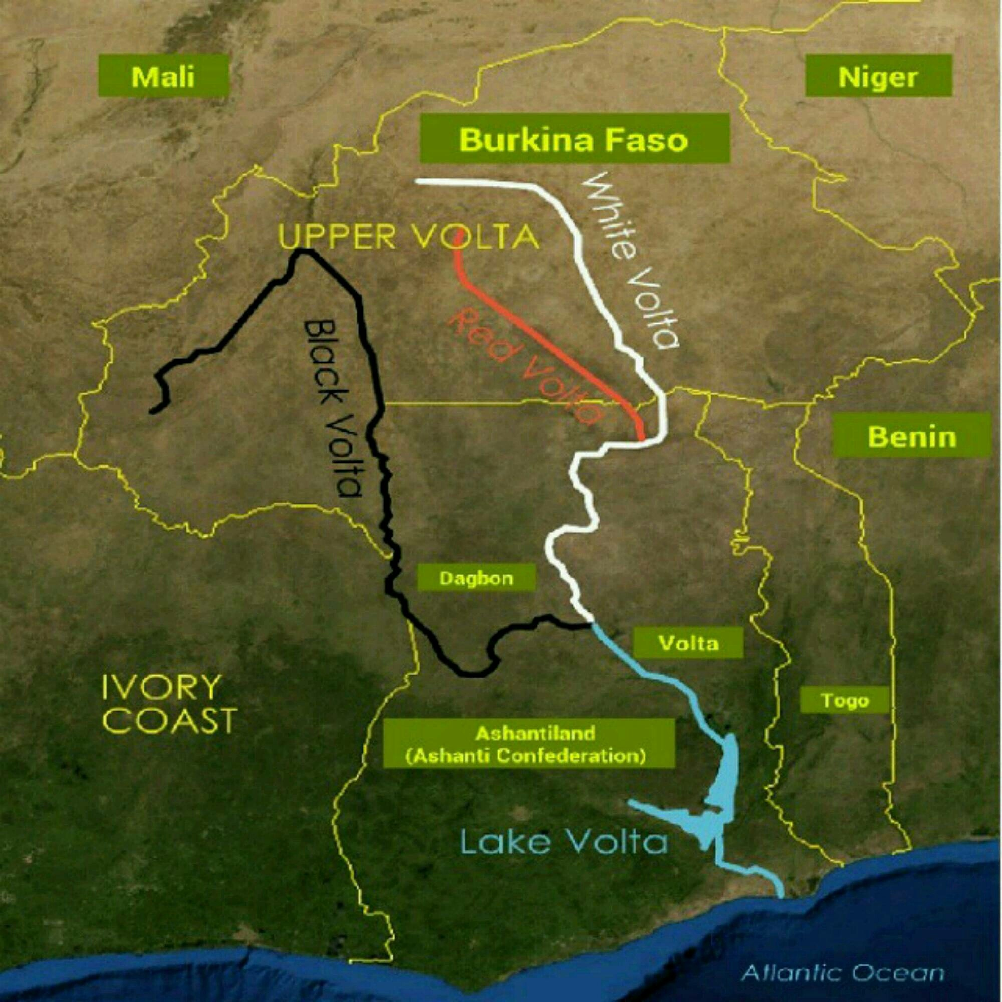 River Volta, showing Red, Black and White voltas and surrounding countries. The satellite image is a public domain image from NASA world wind, the other details were added on in Corel Painter IX. For a map without descriptions, see Image:Volta river black white red.PNG Note: The Republic of Upper Volta existed as such from December 11, 1958 until August 4, 1984, when the country took the name of Burkina Faso. The earlier name was created by the French Community, and not by the region's residents.